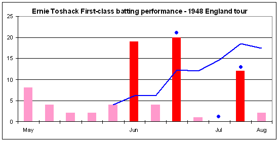 FC batting chart for Ernie Toshack during the 1948 tour of England. Blue line is an average for five most recent innings, blue dots are not outs. Bars are runs scored. Pink for FC, red for Tests